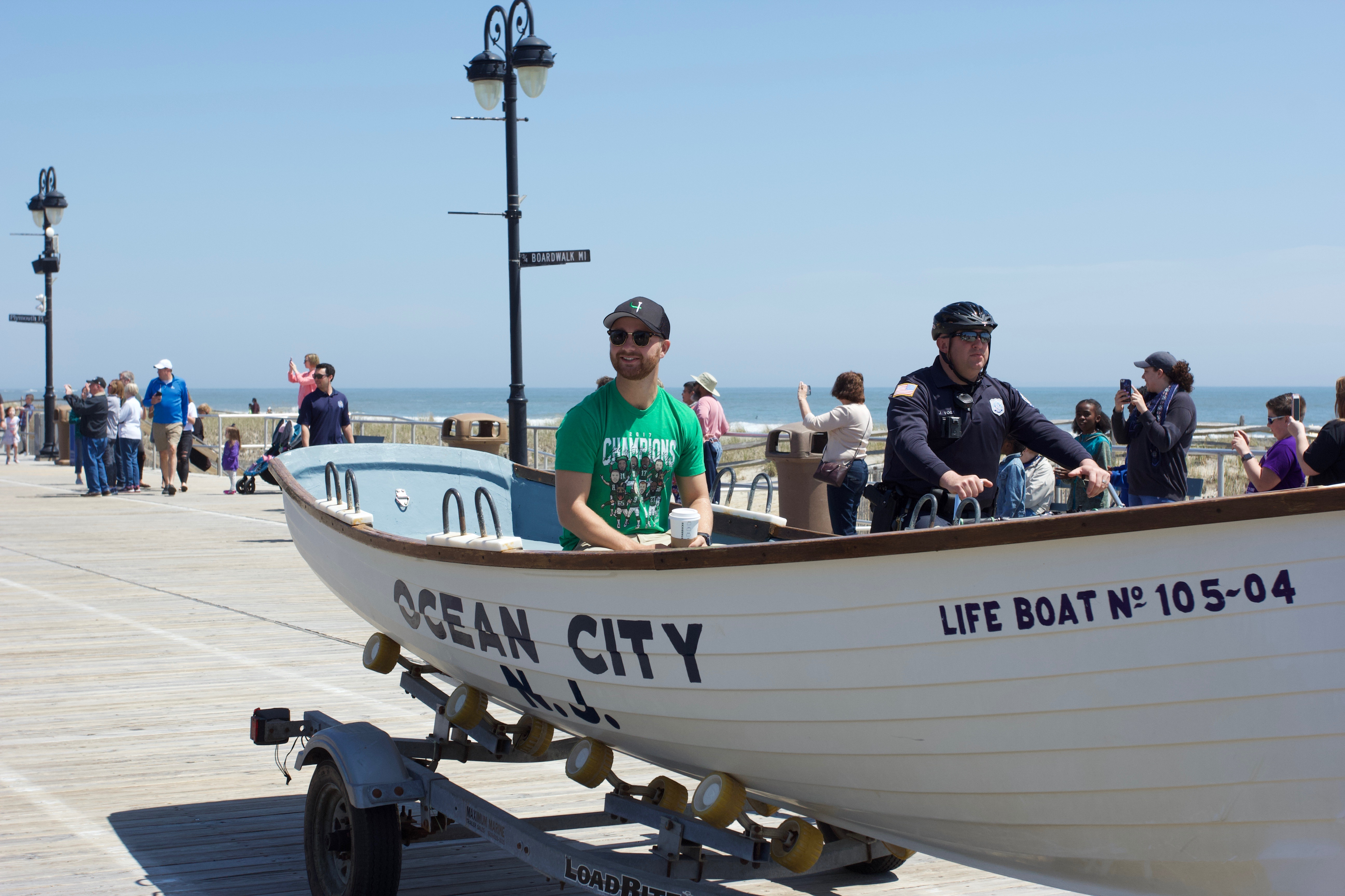 Eagles Ocean City Parade